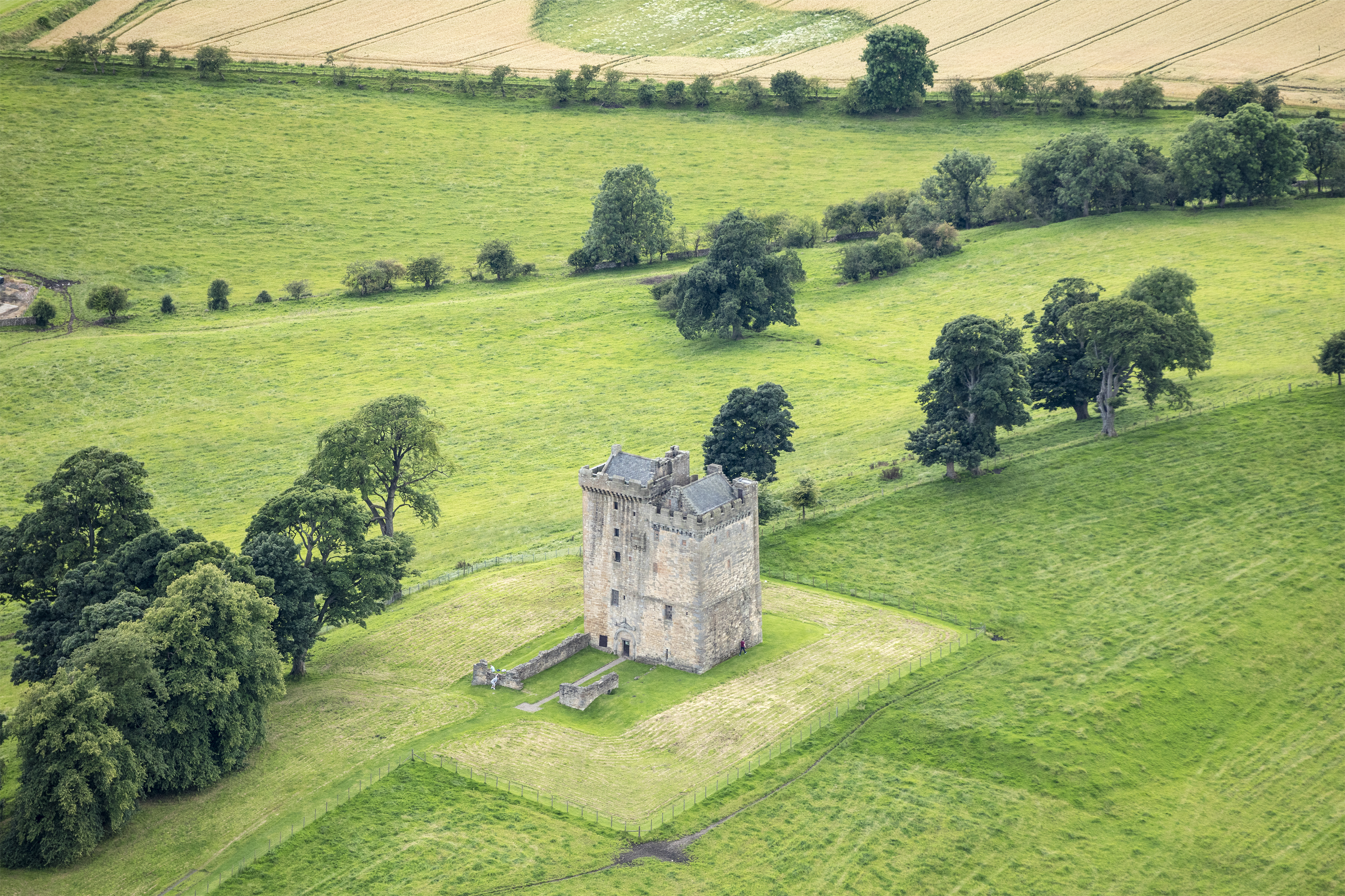 Aerial view of Clackmannan Tower, Clackmannan, Scotland Wikidata has entry Q2307948 with data related to this item.